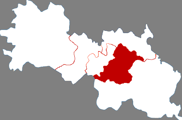 Location of Yantan District in Zigong City, China